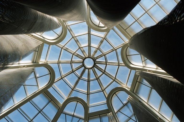 Ceiling of the Guggenheim Museum in New York City.